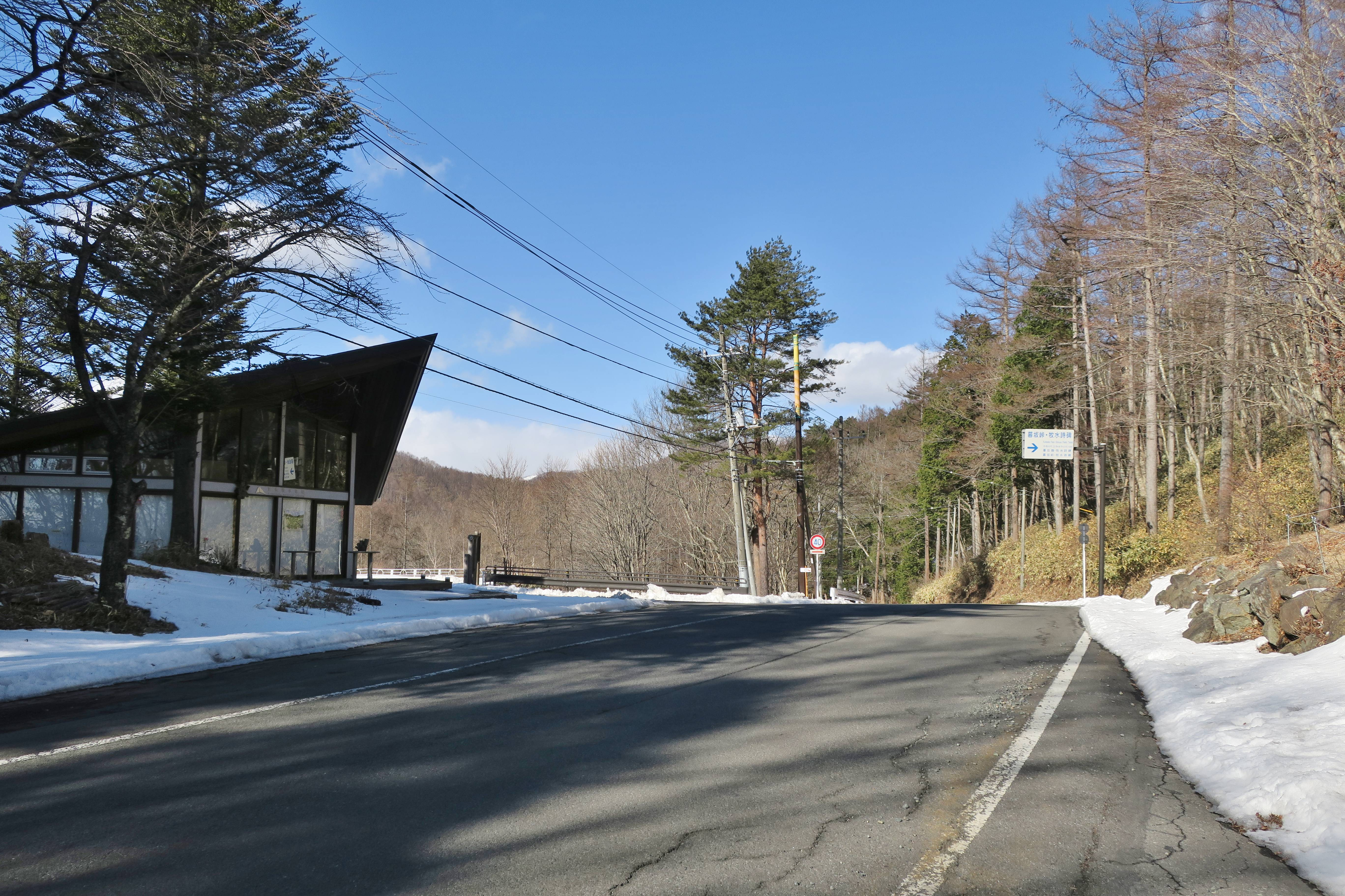 Kuresaka Pass (Nakanojō, Gunma).